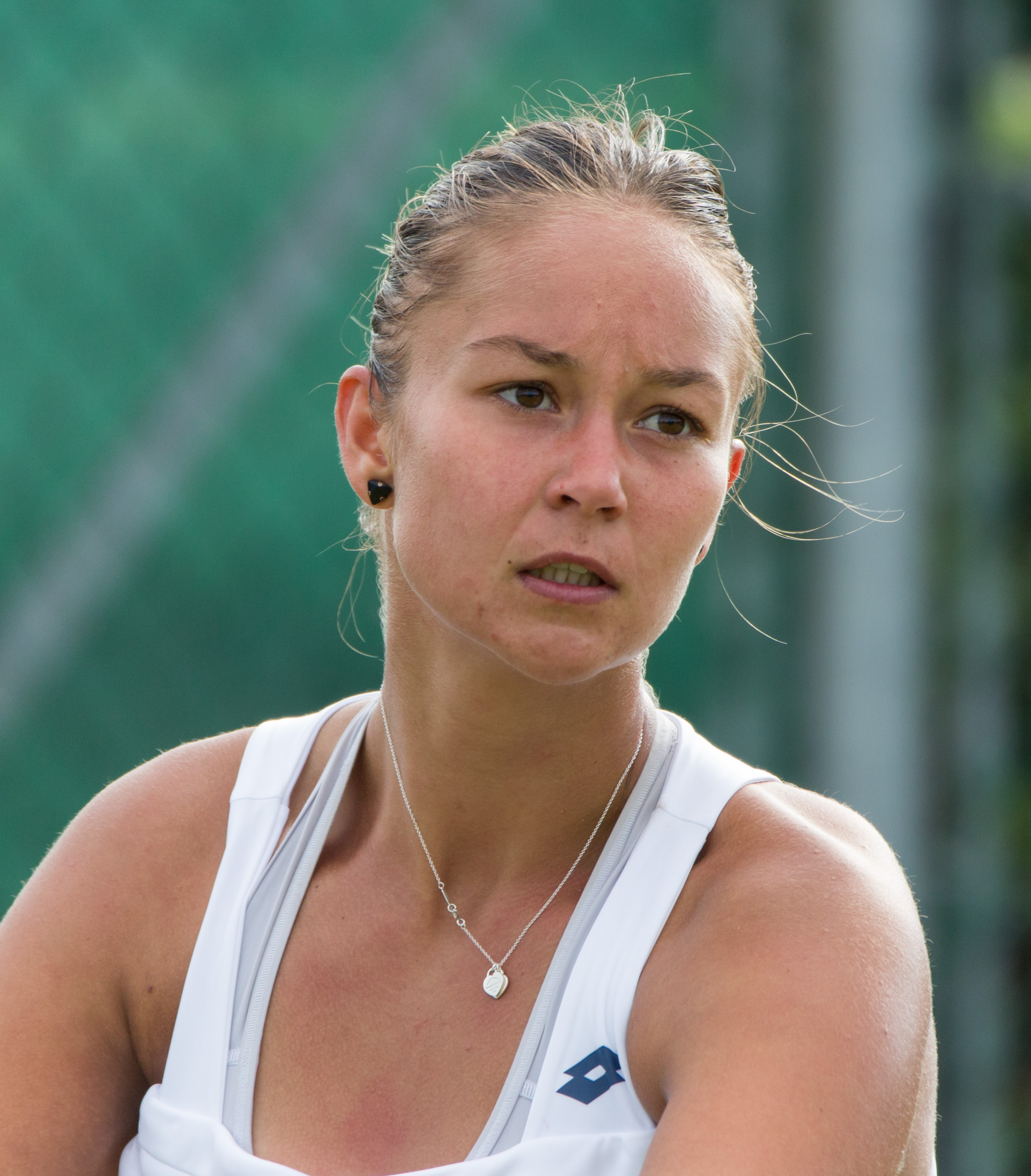 Lesley Kerkhove competing in the first round of the 2015 Wimbledon Qualifying Tournament at the Bank of England Sports Grounds in Roehampton, England. The winners of three rounds of competition qualify for the main draw of Wimbledon the following week.